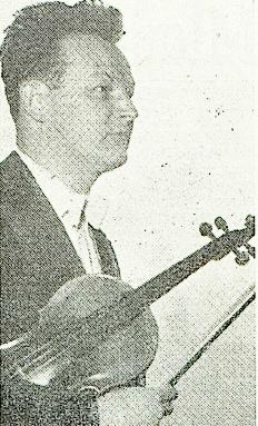 Rok Klopčič (1933-2010), Slovene violinist